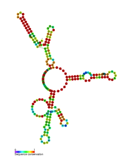 Secondary structure and sequence conservation image for P29 non coding RNA (RF01675). Nucleotide colouring indicates sequence conservation between the members of this family.